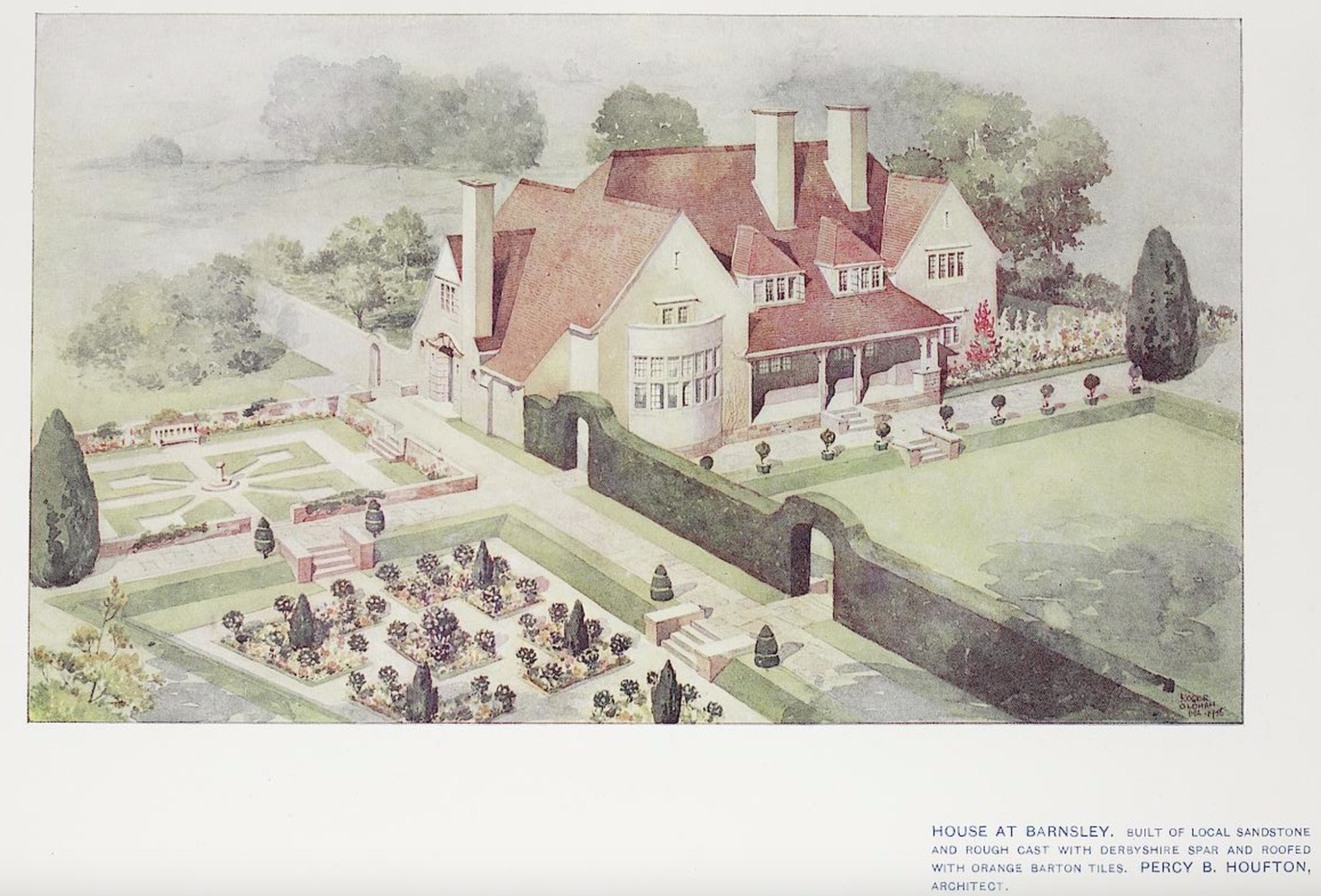 House at Barnsley. Built of local sandstone and rough cast with Derbyshire spar and roofed with orange Barton tiles. Percy B. Houfton, Architect. From the Studio Yearbook 1907.